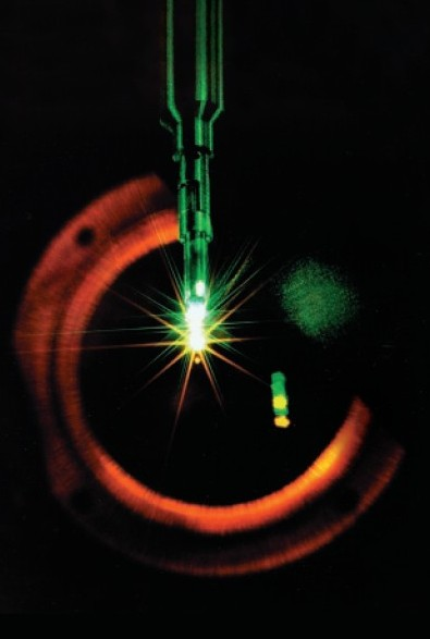 Implosion of a fusion microcapsule on the NOVA laser system. This miniature “star” was created in the Nova laser target chamber as 300 trillion watts of power hit a 0.5-millimeter-diameter target capsule containing deuterium–tritium fuel.